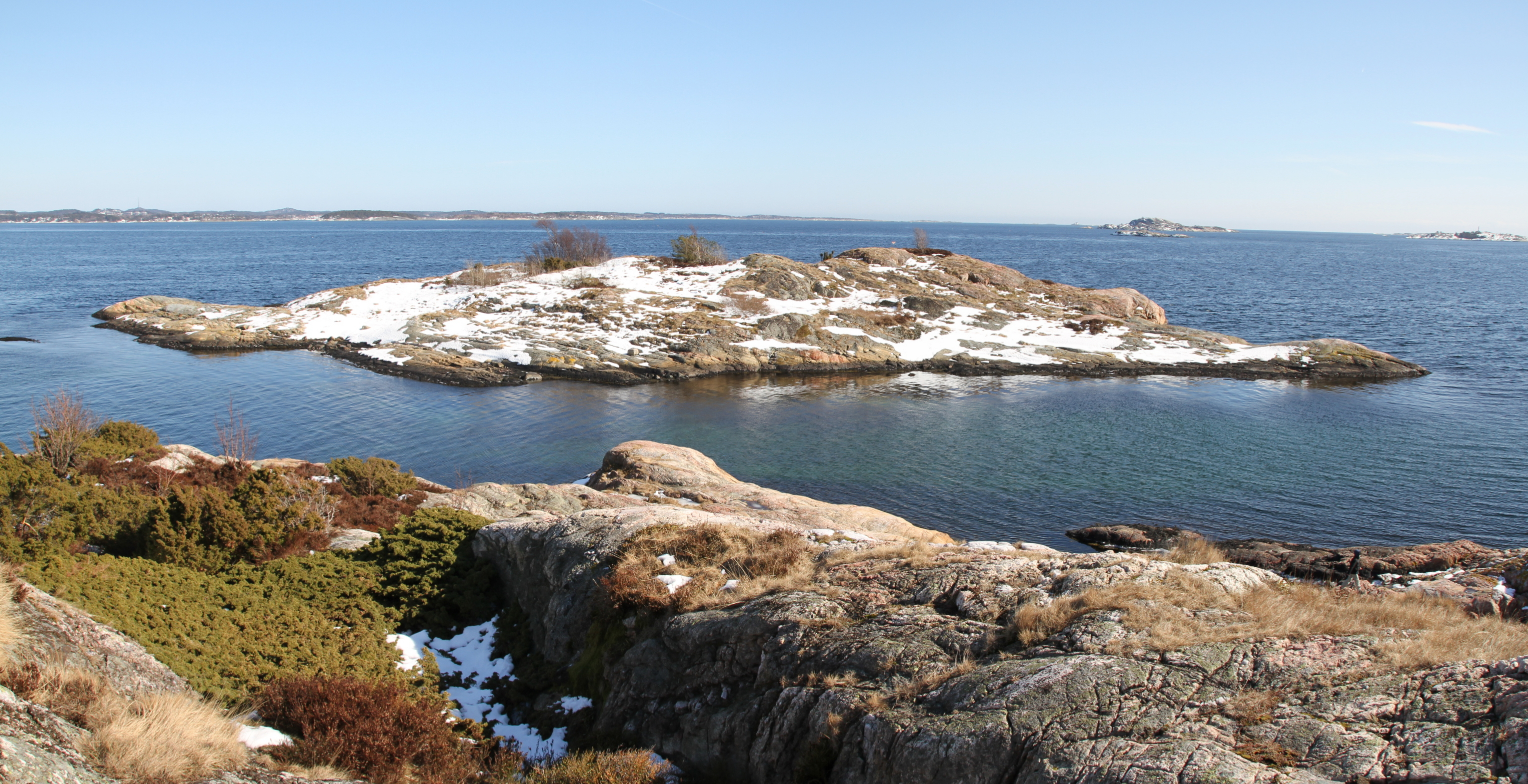 Panoramic of the little island Andholmen, with Piningsundet sound, seen from the Bredalsholmen island. Kristiansand Fiord, Norway.